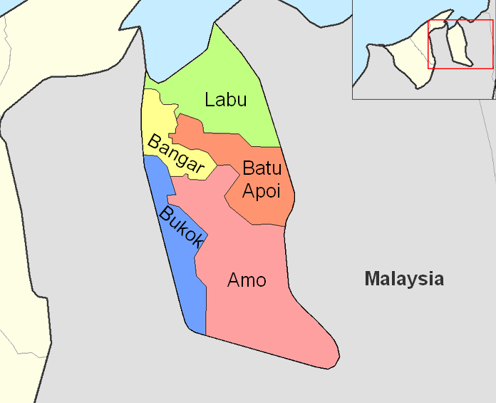 Map of the mukims (subdivisions) of the Temburong District of Brunei, in the northwest of the island of Borneo. An isolated territorial enclave separated from the rest of Brunei by the Sarawak State of Malaysia. Created by Rarelibra 21:37, 11 September 2006 (UTC) for public domain use, using MapInfo Professional v8.5 and various mapping resources.